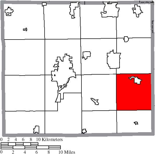 Map of the municipal and township boundaries of Wayne County, Ohio, United States, as of the 2000 census, with the location of Sugar Creek Township highlighted. Township borders are shown only in unincorporated areas in order to differentiate incorporated and unincorporated areas more clearly.